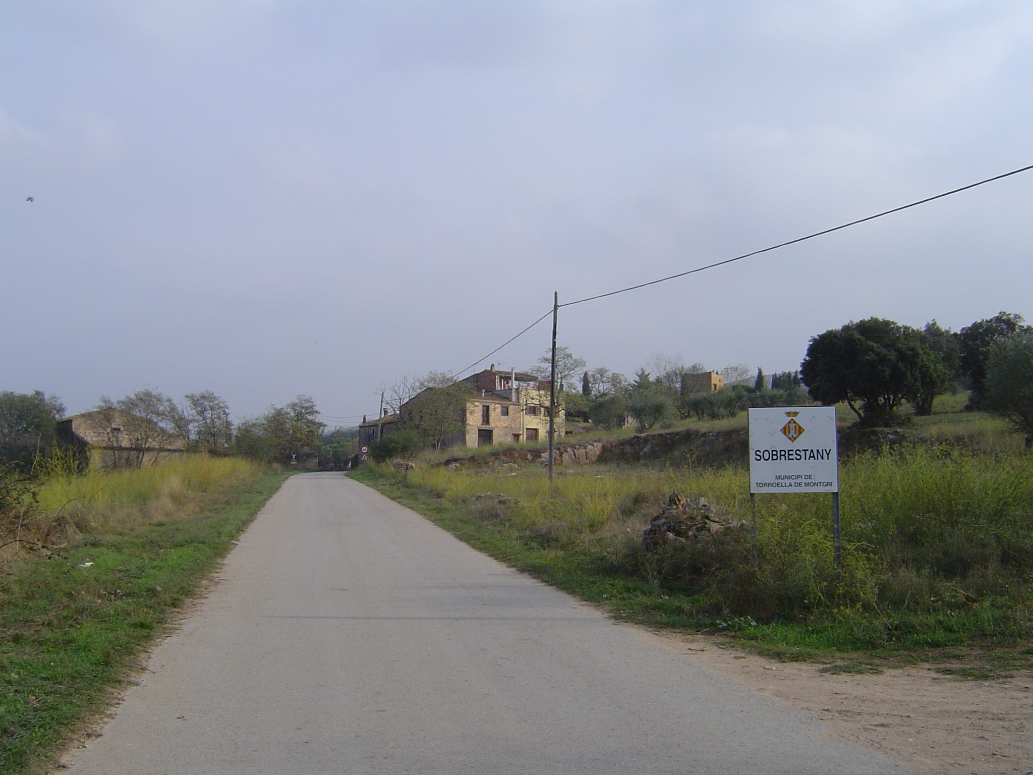 Entry to the village of Sobrestany from the road which comes from la Bolleria.